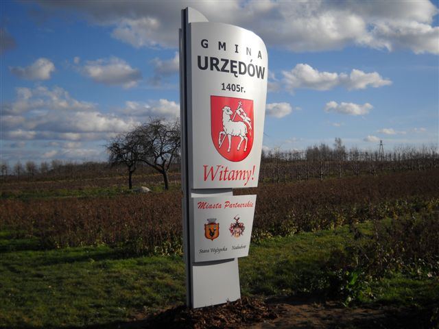 Welcome to Urzędów